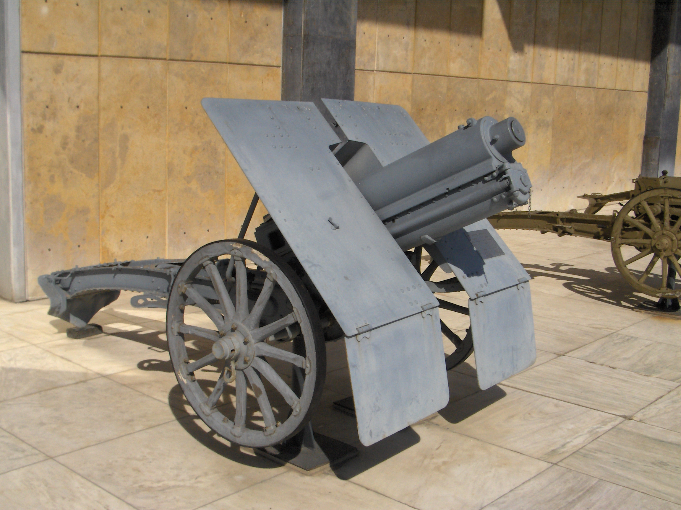 Exhibit at the War Museum in Athens.